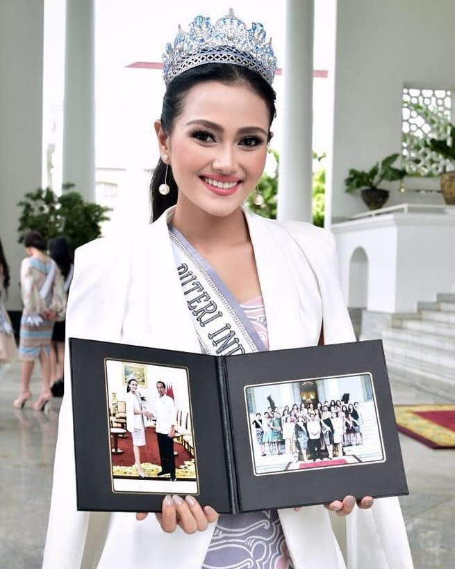 Jesica Fitriana Martasari Alfharisi, Indonesian model and a beauty pageant titleholder who won the title of Puteri Indonesia Pariwisata 2019, at Bogor Palace, holding photos of her individual meeting with president Joko Widodo, and of the Puteri Indonesia finalists all with Joko Widodo.